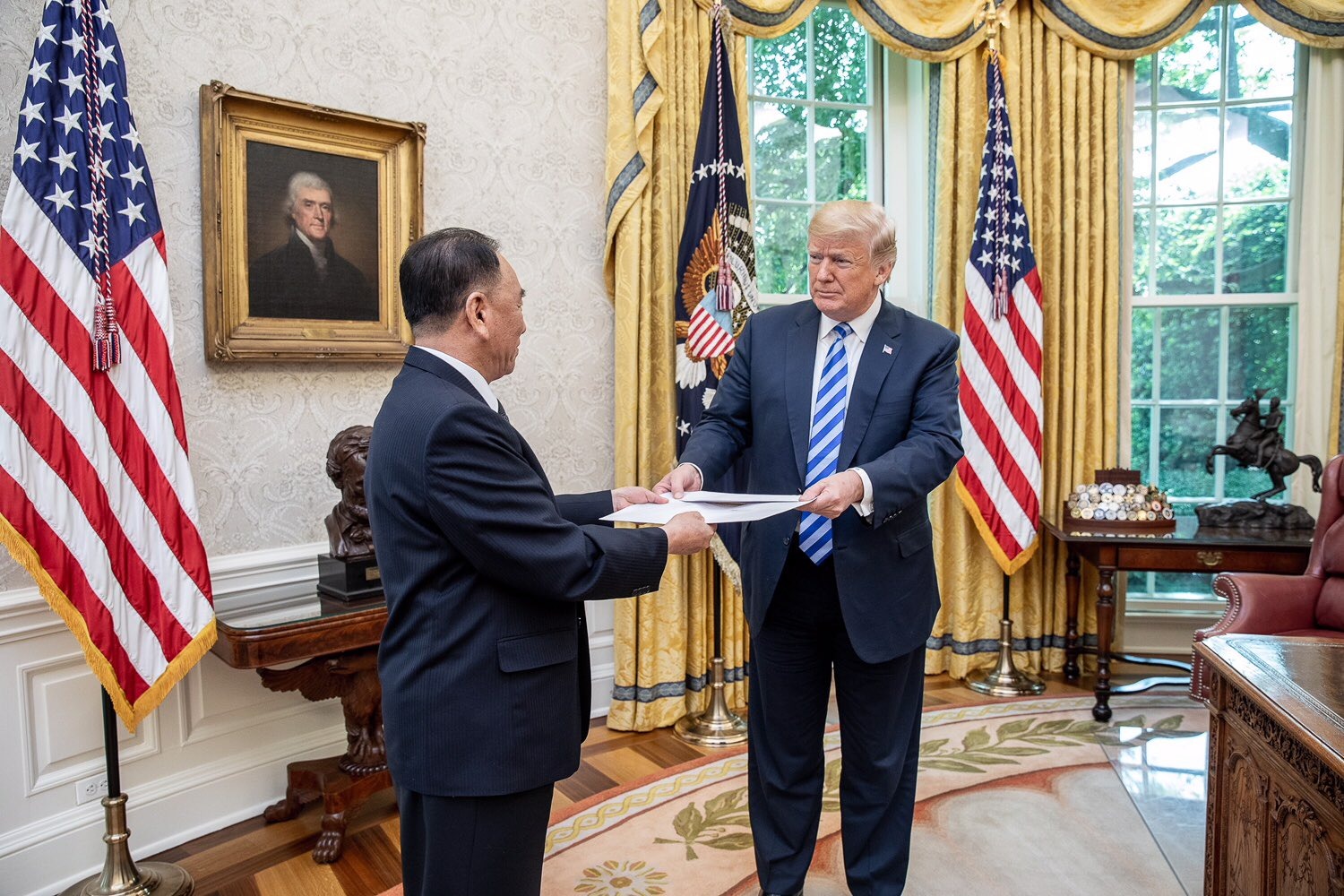 A letter from North Korean Leader Kim Jong Un